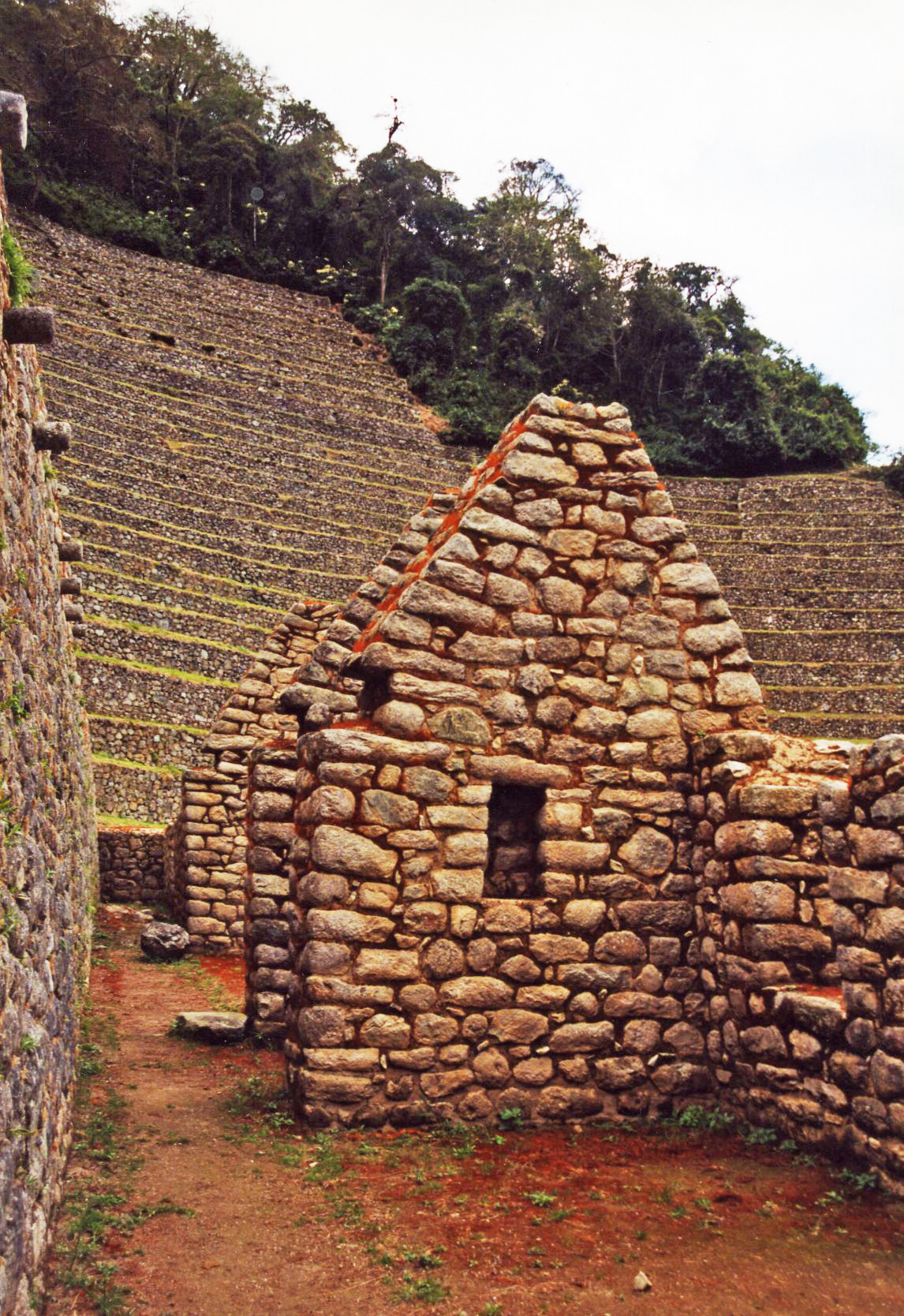 Winawayna sanctuary on the Machu Picchu trail